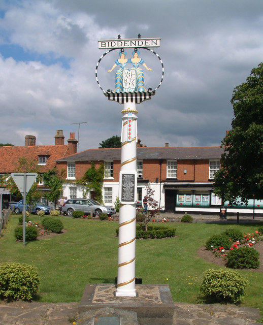 Biddenden Maids Village Green. Plaques on sign read: Eliza and Mary Chulkhurst the famous twins known as the Biddenden Maids were born in the year 1100 joined together at hips and shoulders. They lived together thus joined for 34 years when one of them was seized with a fatal illness and died. The other refusing to be separated died 6 hours later. By their Will they left their property to the poor of Biddenden. In commemoration of the Biddenden Maids an annual distribution of bread and cheese takes place on Easter Monday morning from the old bakehouse. Biscuits bearing the impress of the two maids, their names and year of birth are available at the same time to all who apply, visitor and parishioners.